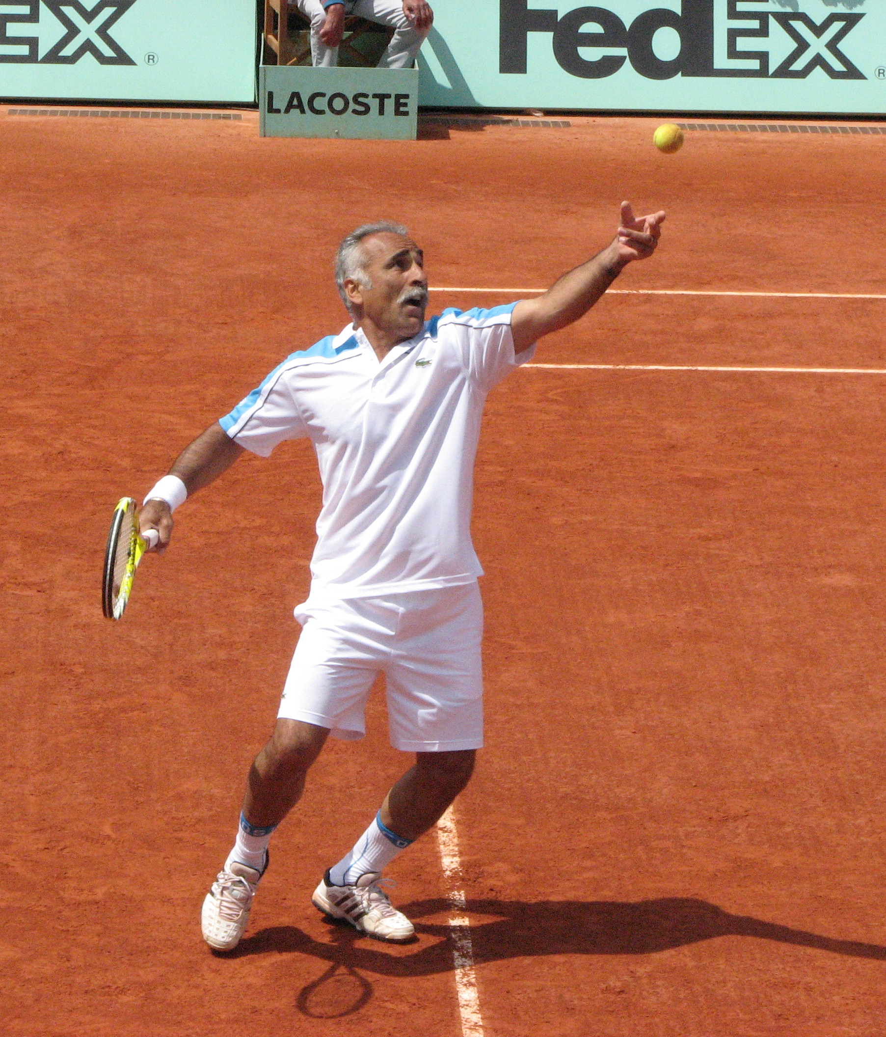 Mansour Bahrami at the French Open (2009)